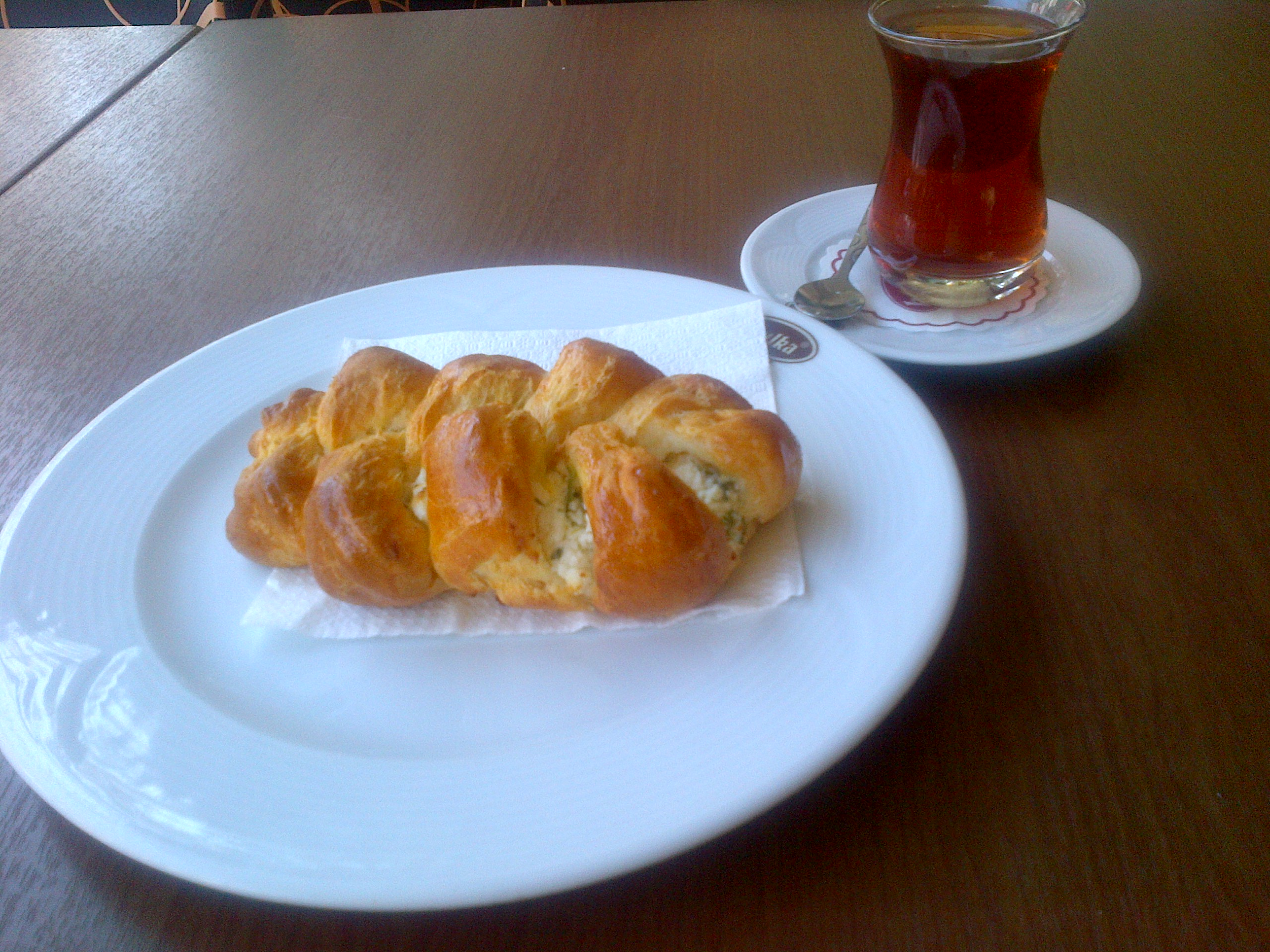 Turkish tea and poğaça in Çankaya, Ankara.